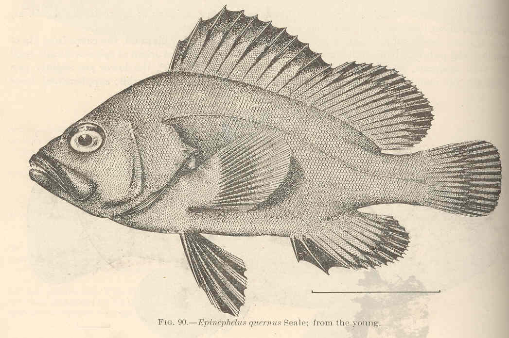 Epinephelus quarnus Seale; from the Young Subject: Epinephelus, Groupers Tag: Fish